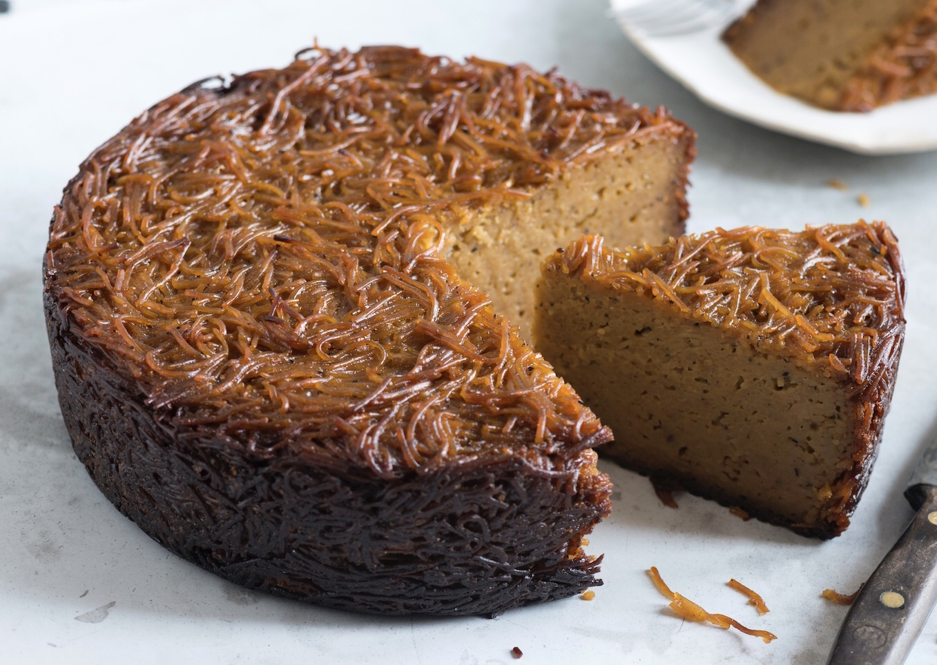 is a commonly served at Shabbat kiddushes and is a popular side dish served with cholent during Shabbat lunch.